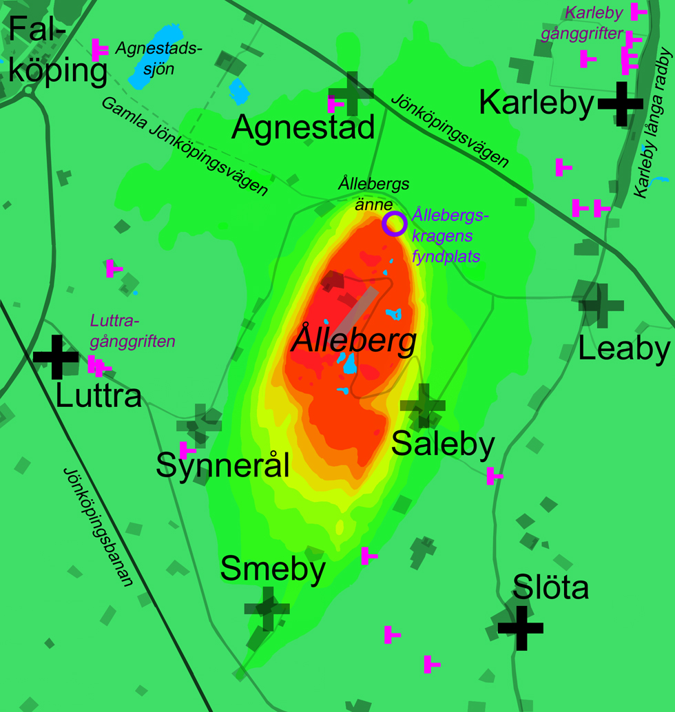 Map over Ålleberg, a table-mountain in the Falbygden area in Västergötland, Sweden. The mountain i situated SE of Falköping, and is surrounded by the parishes Falköpings östra, Karleby, Slöta, and Luttra, wich together form Ålleberg's farthing (quarter) of Vartofta hundred. It nowadays belong to Falköpings municipality in Västra Götaland. Scale 1:20,000. Topography: Altitude is shown with different colours from green over yellow to red. The equidistance is 10 m. Green hues are under 280 meter above sea-level. Yellow 280-290 meter. Orange yellow 290-300 meter. Orange 300-310 meter. Orange red 310-320 meter. Red 320-330 meter. Scarlet red is above 330 meter. Agnestadssjön and other pound are blue. Churches: The churches of Luttra, Slöta, and Karleby parishes are marked with black crosses. The churchruins of Agnestad, Leaby, Saleby, and Smeby, and the approximate place for the mediaeval Synnerål church, are marked with grey crosses. All these churches was probably churches in their own parishes during the Mediaeval period, and together they formed Ålleberg's farthing. Railway, roads, and landings strip is marked grey. Villages and farms are marked grey. Archaeology: Passage graves from the Middle Neolithic are marked with magenta T-shaped symbols. A violet ring marks the finding-place for the Migration period golden collar called Ållebergskragen.